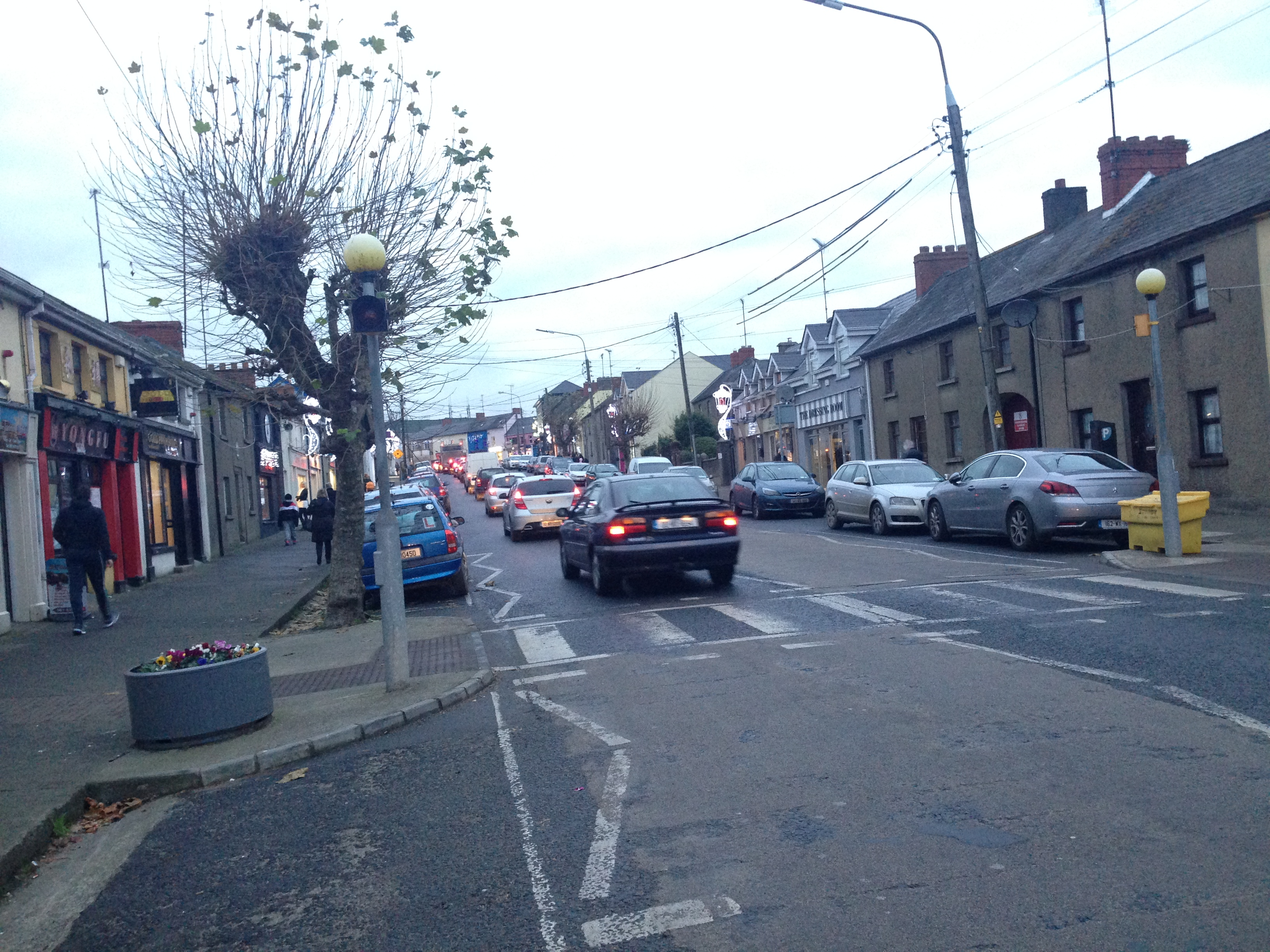 Esmonde Street December 2016